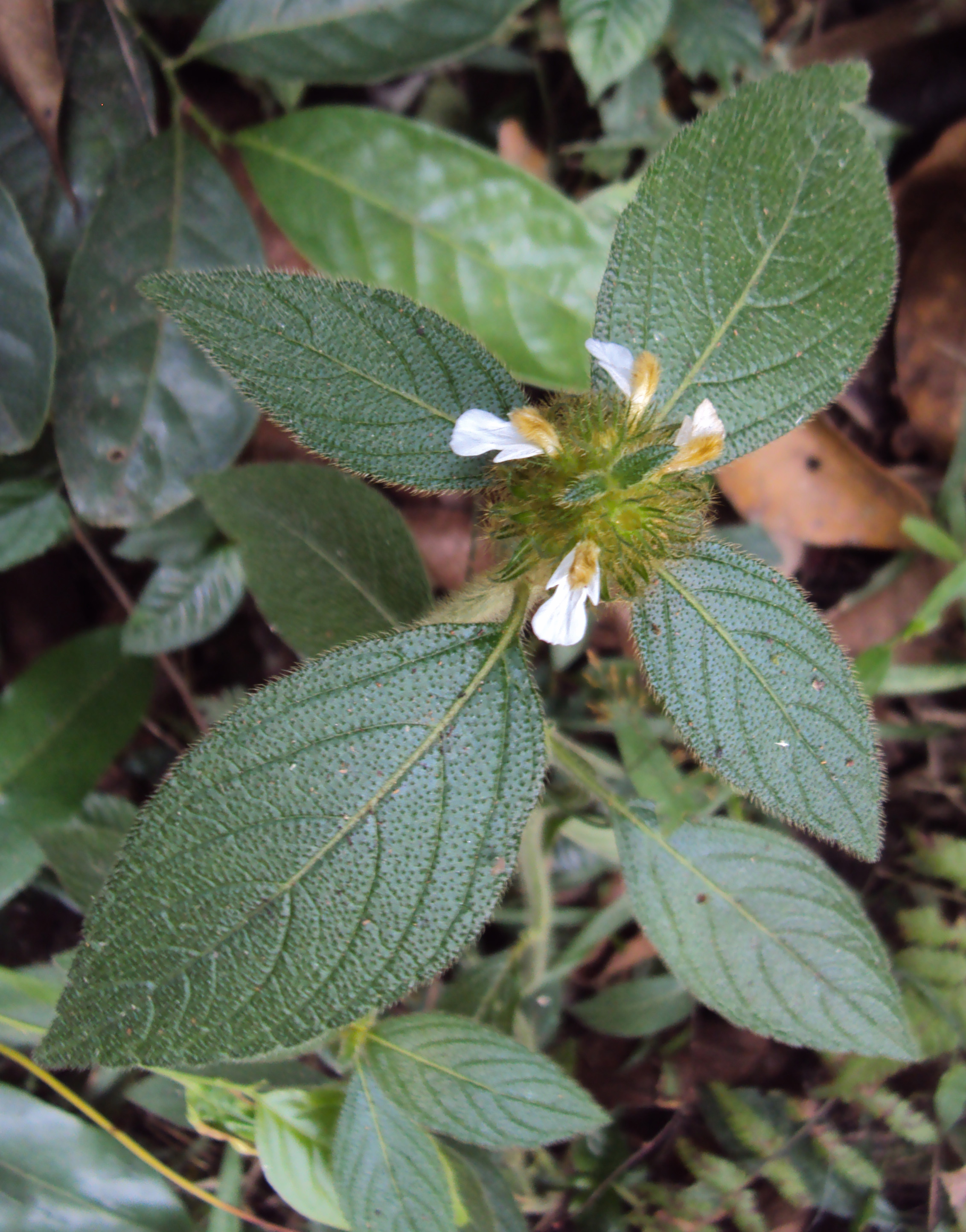 Leucas ciliata